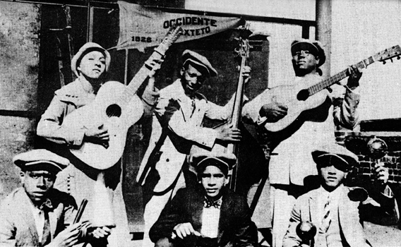 Photograph of Sexteto Occidente: Maria Teresa Vera (guitar), Miguelito Garcia (clavé), Ignacio Piñeiro (double bass), Julio Torres Biart (tres), Manuel Reinoso (bongo) and Francisco Sanchez (maracas)